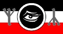 Algiz runes and Wotan's eye on flag of the German organisation Deutsche Heidnische Front (German Heathen Front), the German chapter of the Allgermanische Heidnische Front (All-Germanic Heathen Front)